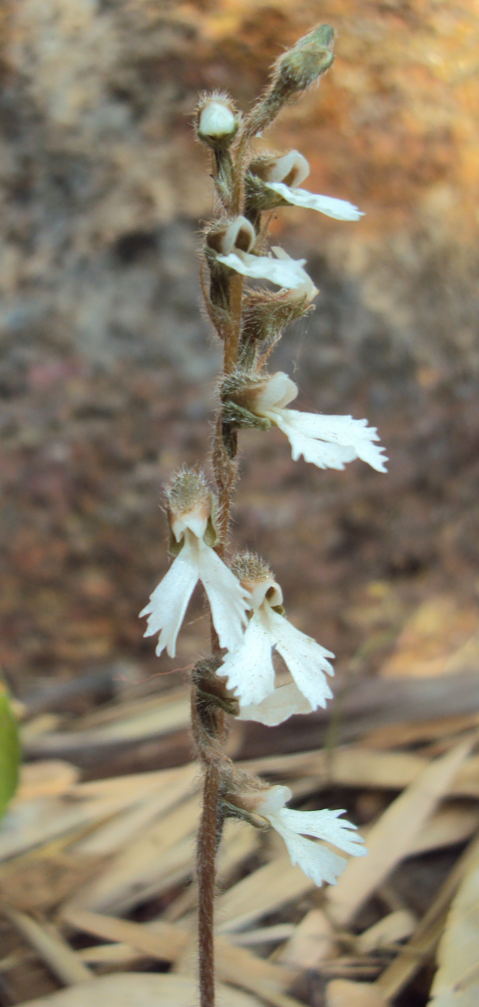 Zeuxine longilabris